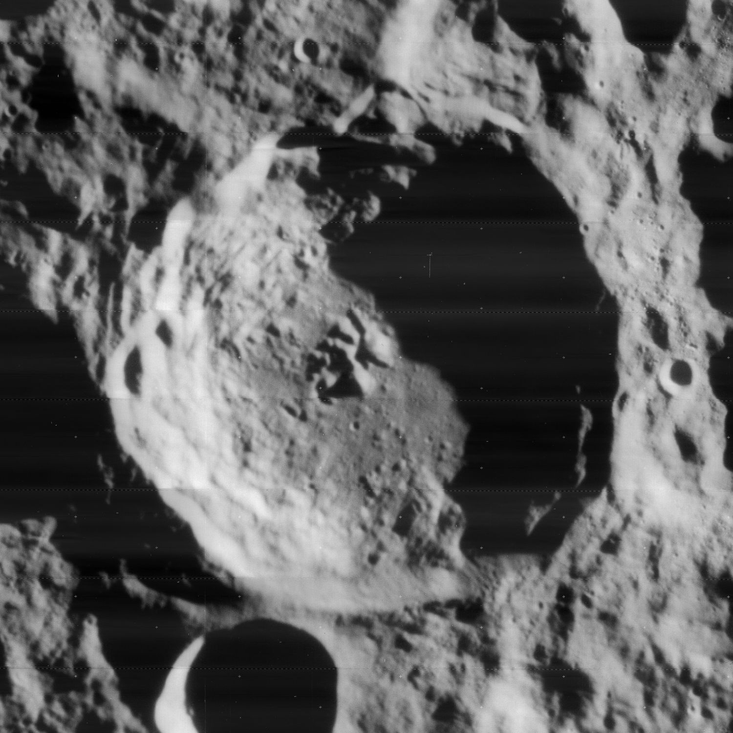 Schomberger, near the south pole of the moon, with north at the top.